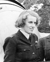 Five ATA flyers left to right Lettice Curtis Jenny Broad Audrey Sale Barker Gabrielle Patterson and Pauline Gower. guess 1943